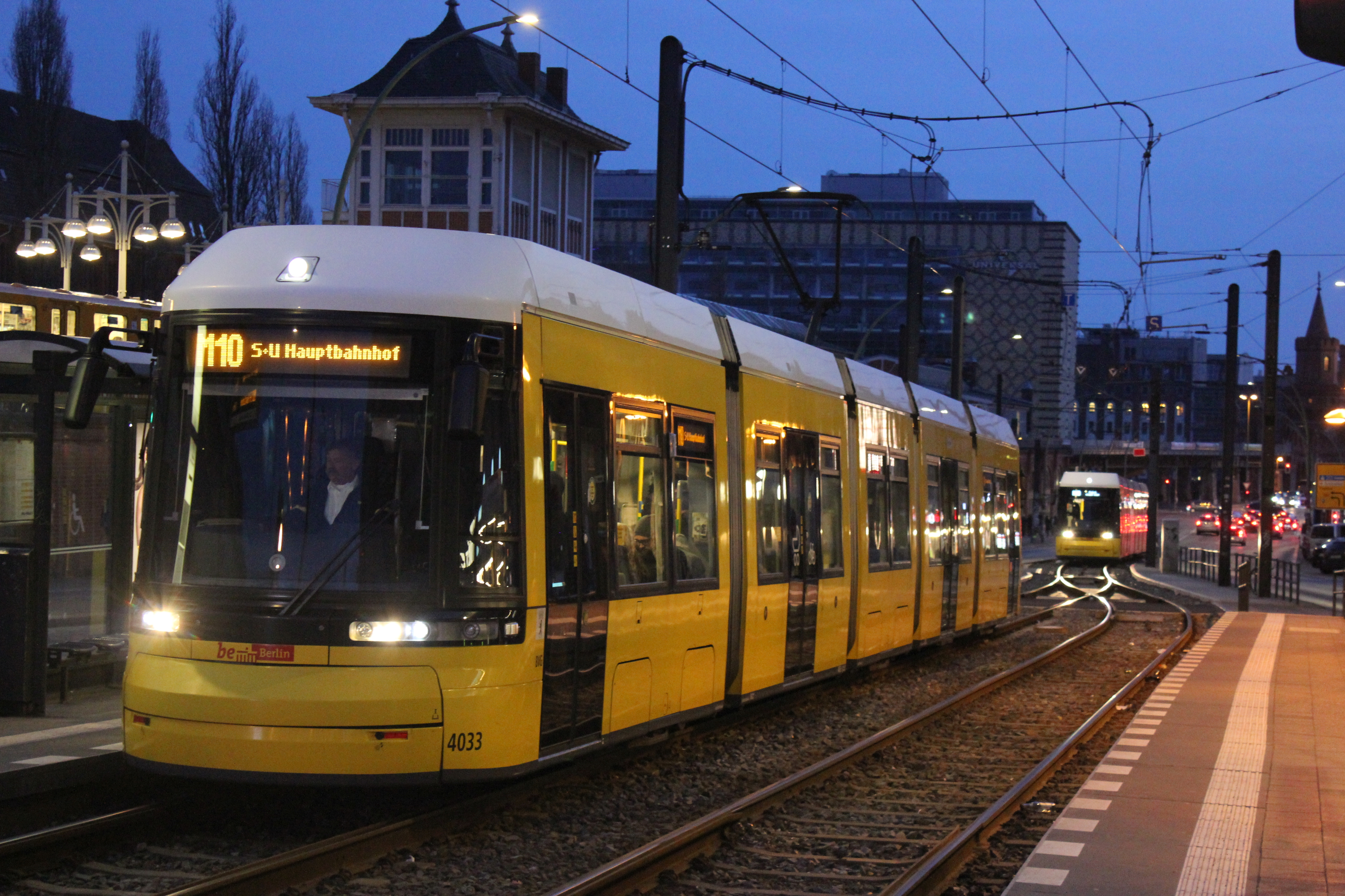 Berlin - Bombardier Fleity tram #4033 on the terminus Warschauer Straße of line M10